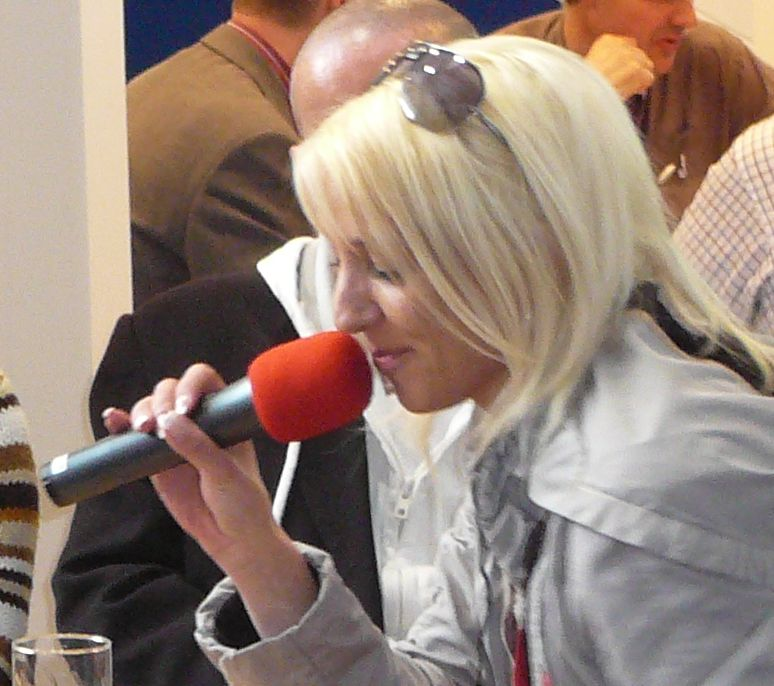 Mirjam Müller Landa on the presentation of film Kvaska in the pavilion A on the Brno Exhibition Grounds in the Building Fair.